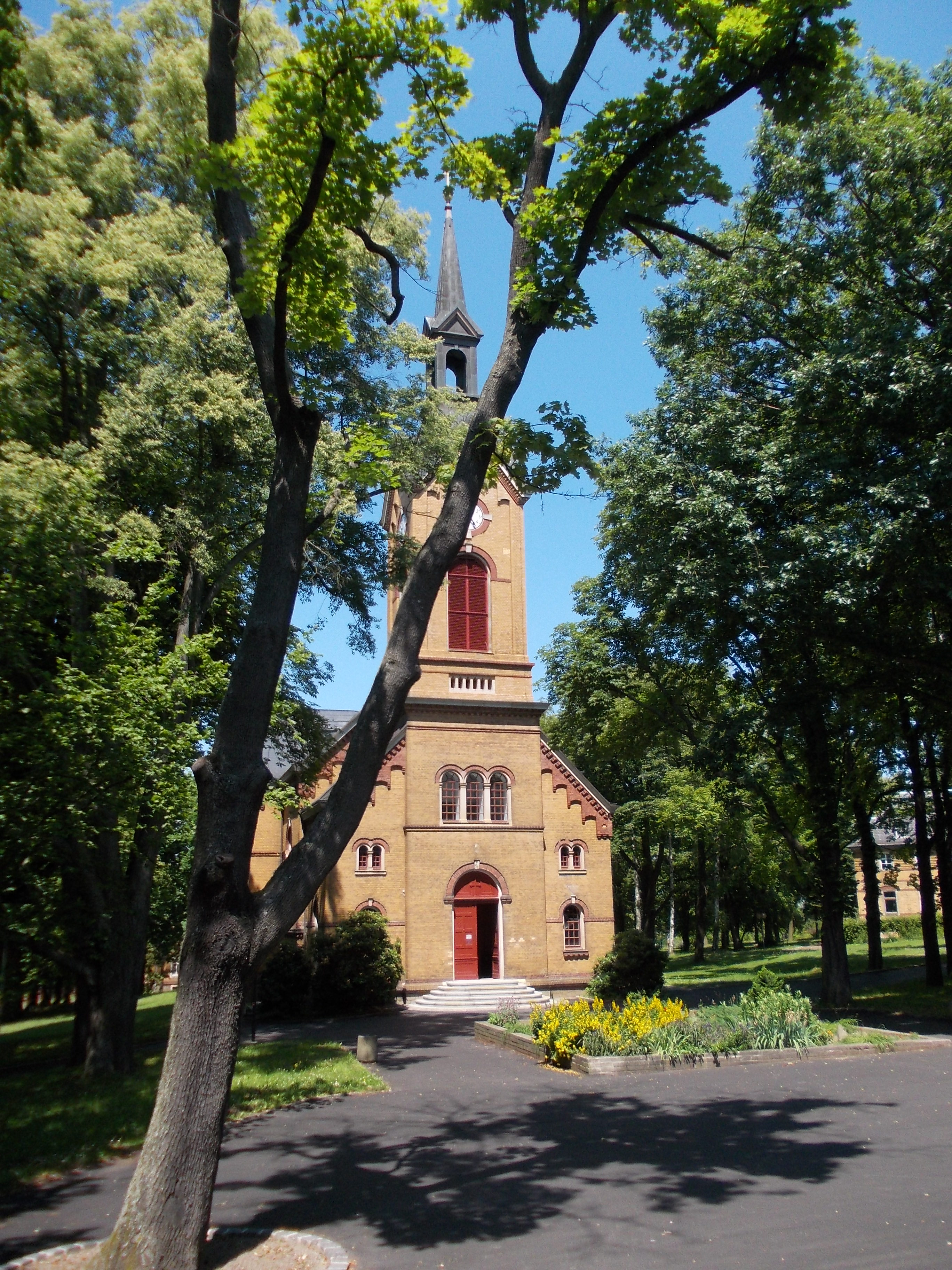 Zschadrass church (Colditz, Leipzig district, Saxony)